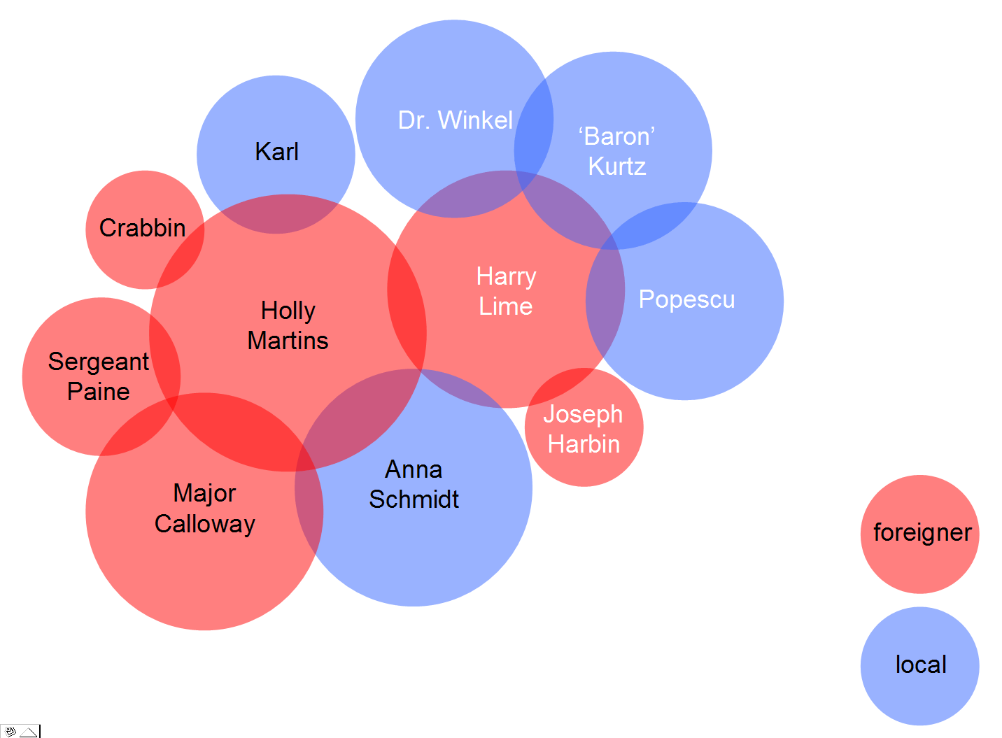 Designed as a social network, this image maps the major characters, both foreigners and locals, found in Carol Reed's film "The Third Man", with the sizes and positions of the bubbles indicating their importance to the plot and the intensity of their contacts, respectively.